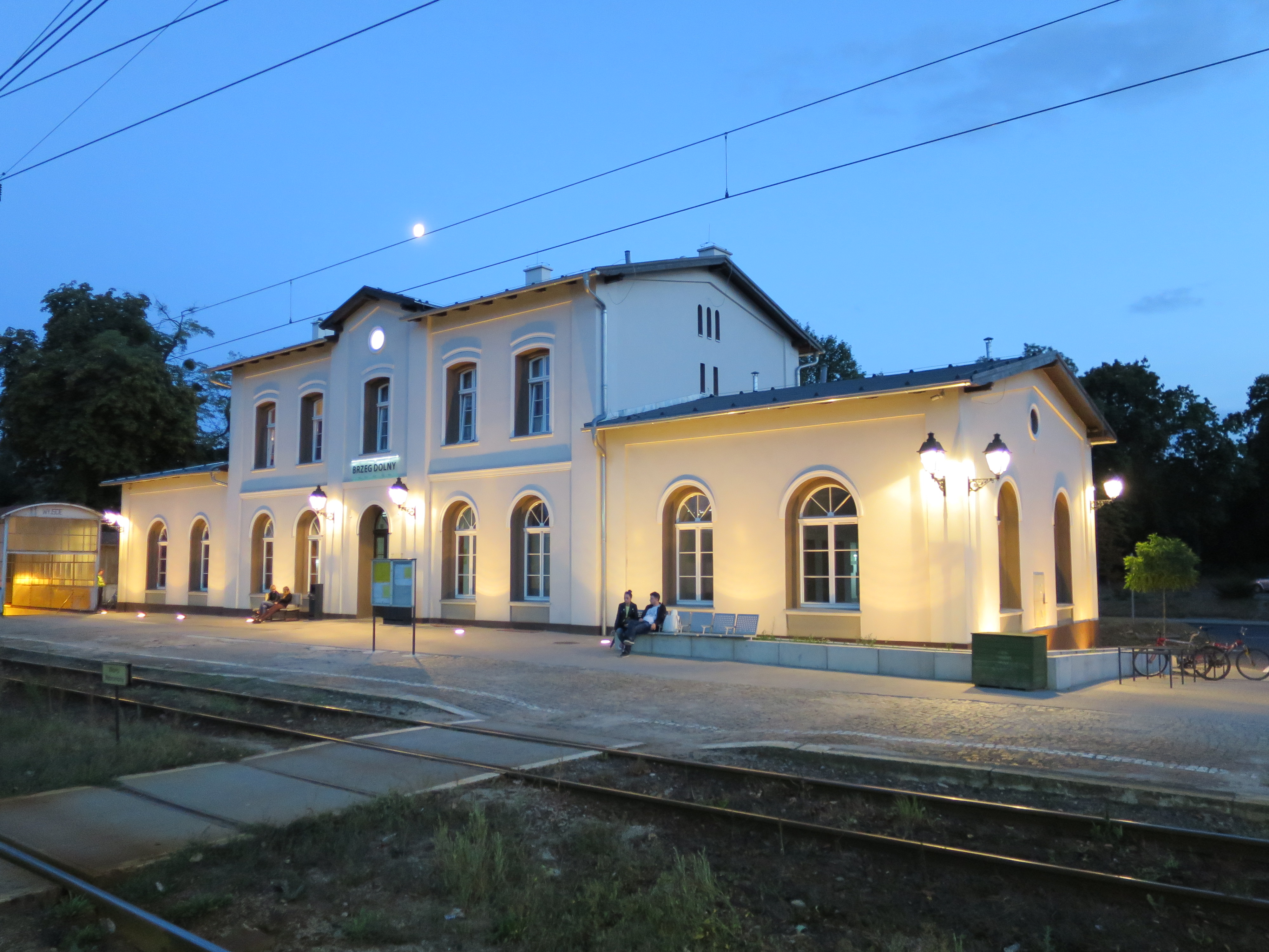 Brzeg Dolny This photo was taken during Railway Wikiexpedition 2015 set up by Wikimedia Polska Association in cooperation with Fundacja Grupy PKP. You can see all photographs in category Wikiekspedycja kolejowa 2015.